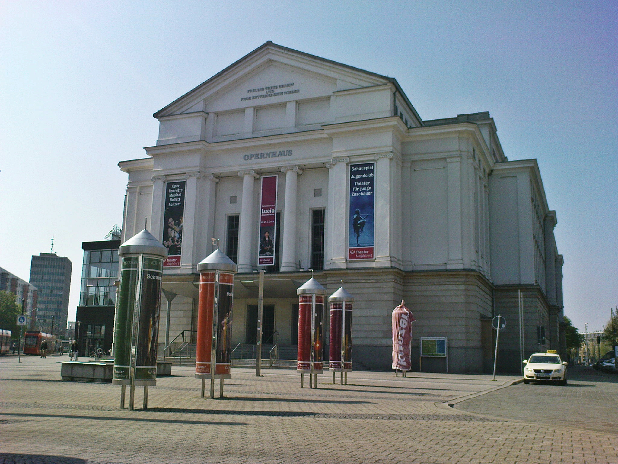 operahouse of magdeburg at the universitaetsplatz, theatre magdeburg